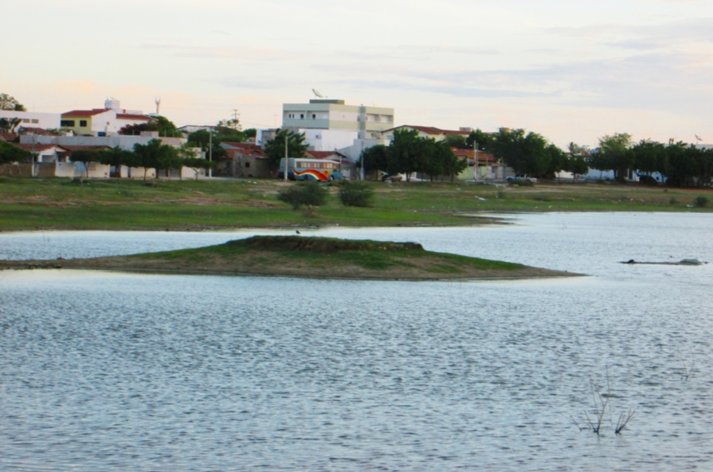 Açude do Recreio, Caicó (RN) - Brasil.